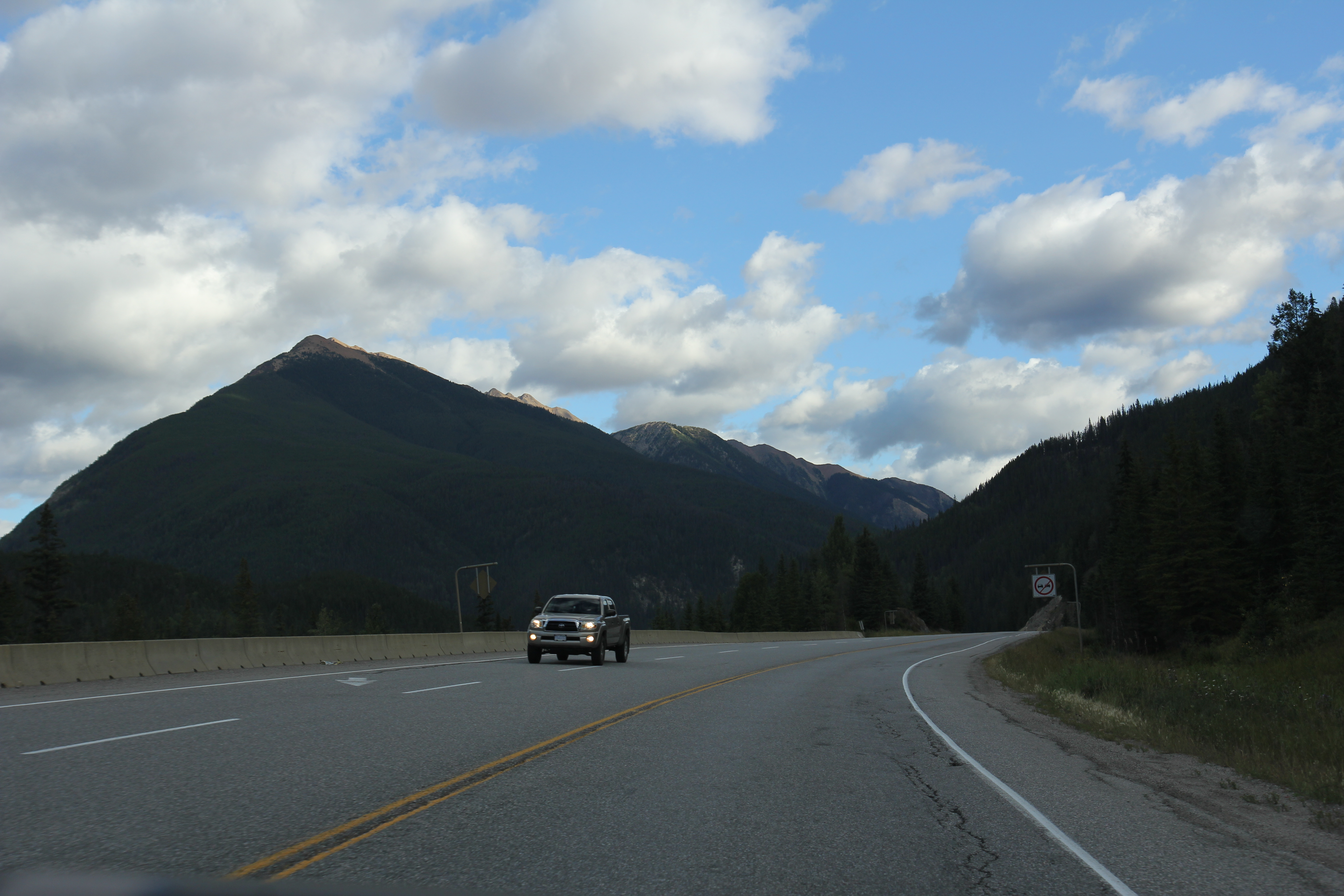 Looking westerly at the Kicking Horse Pass while traveling on the Trans Canadian Highway.